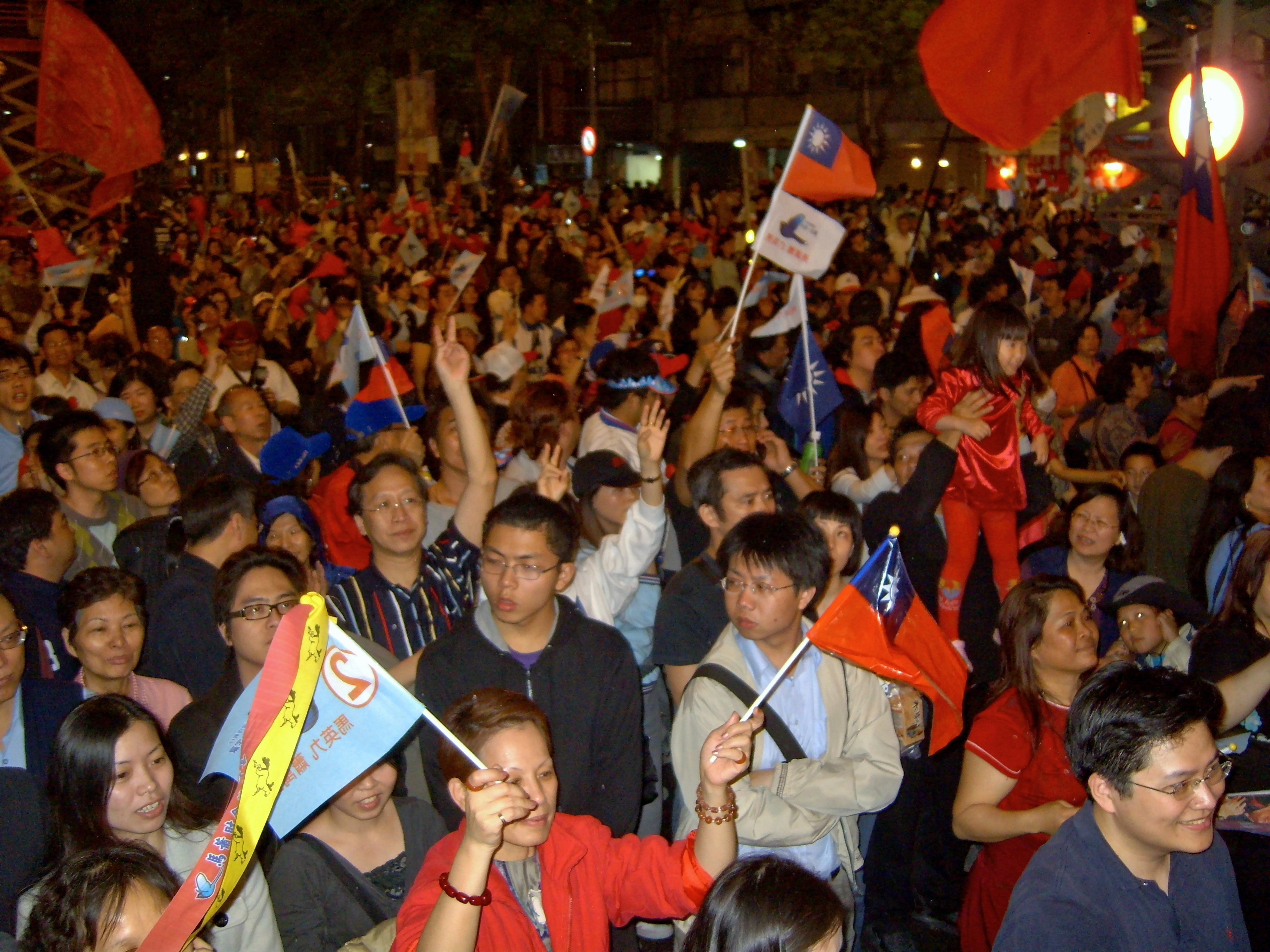 2008 Taiwan Presidential Election: Supporters celebrated Ma's winning.